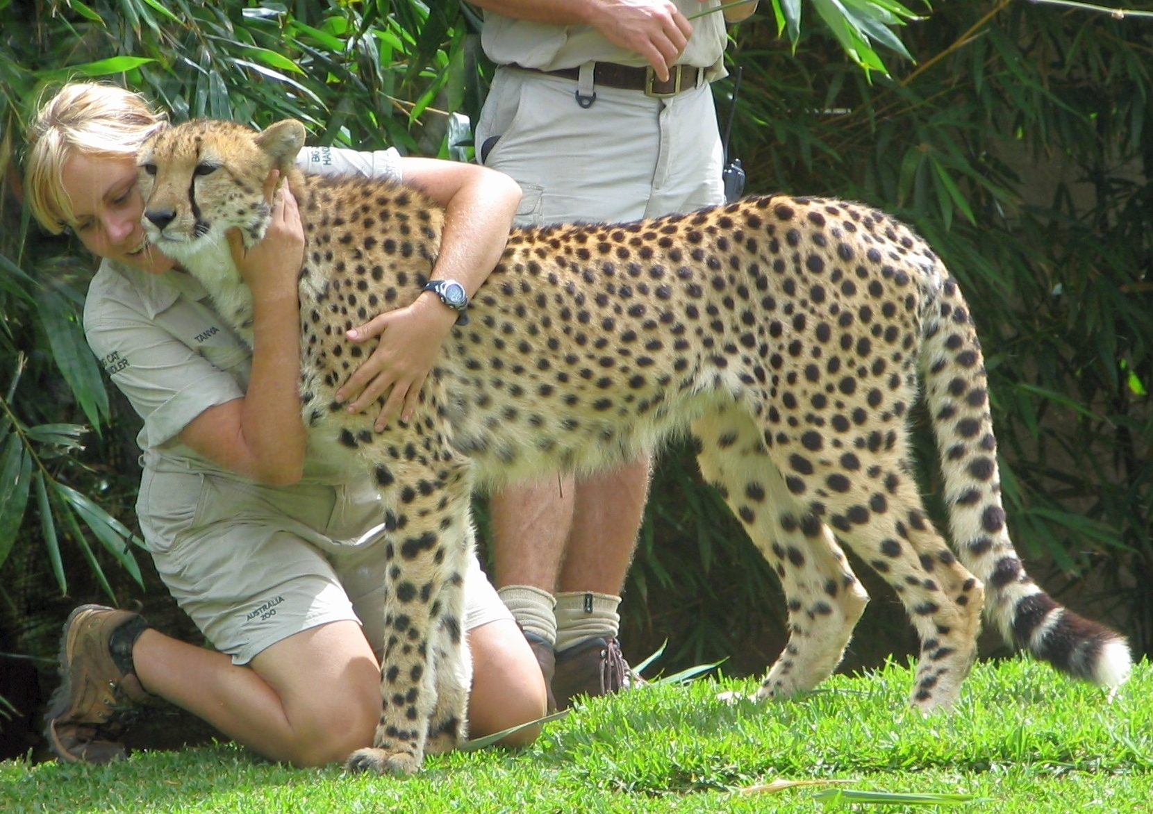 Zookeepers with a cheetah at Australia Zoo. Photo taken through glass